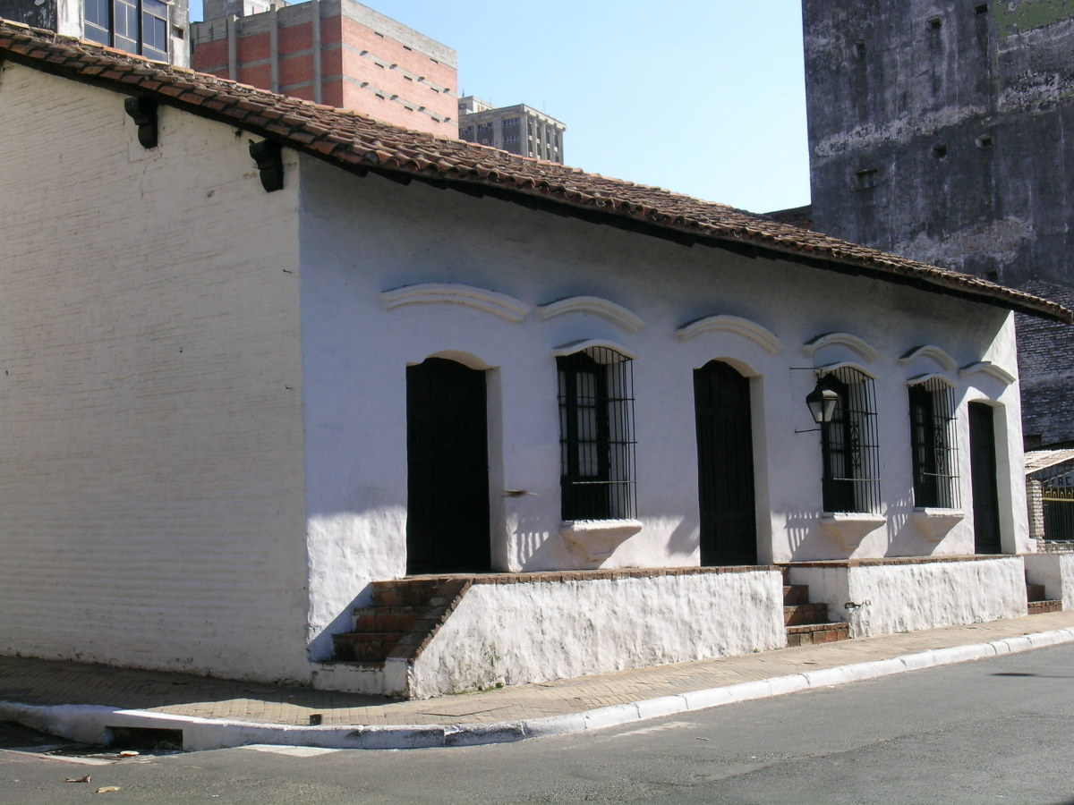 House of Independence